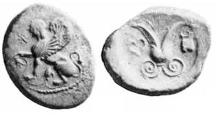 Ancient Coin of Cyprus